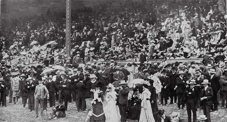 Carnival week in Christchurch: the New Zealand Cup meeting.